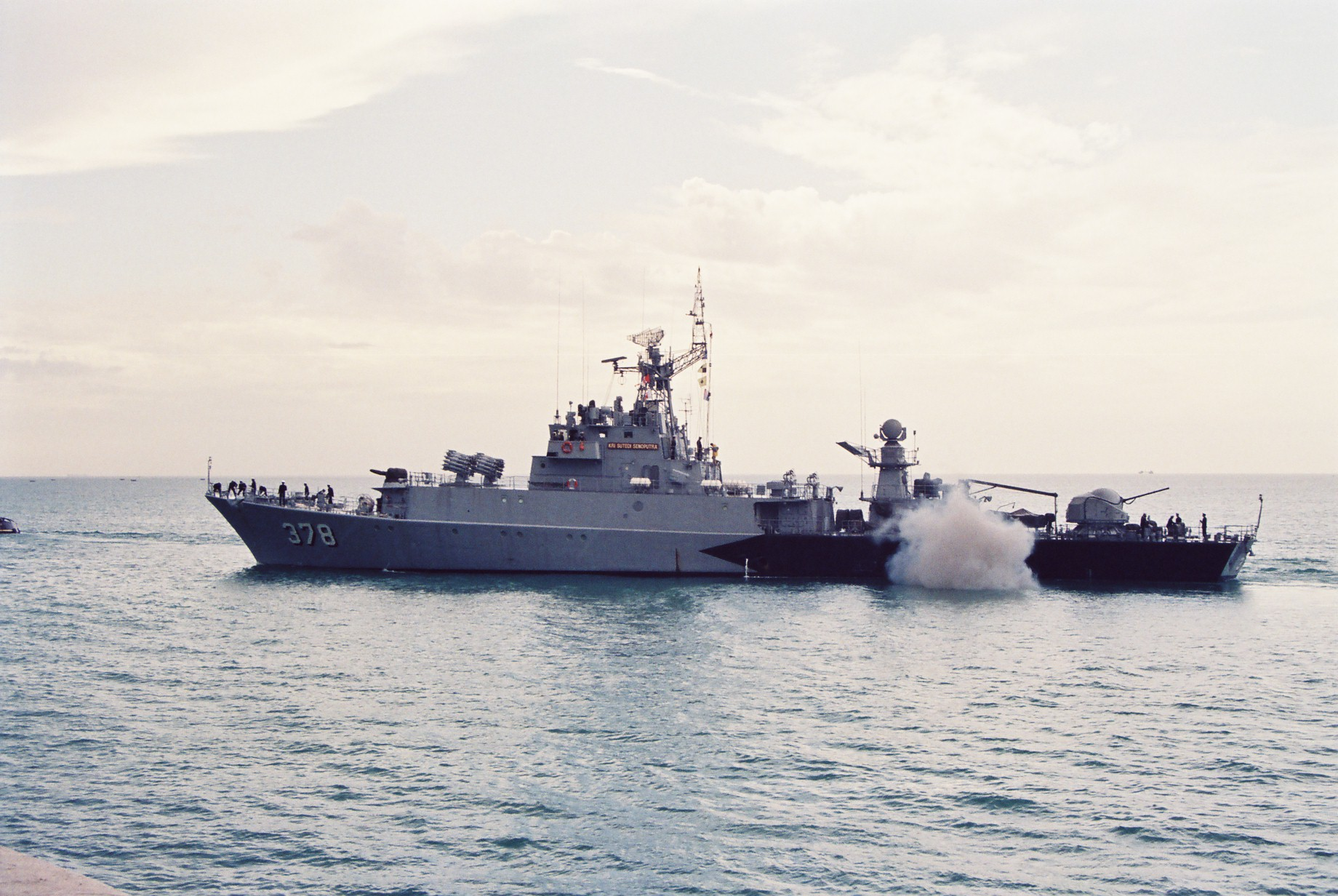 Indonesian corvette Sutedi Senoputra, former DDR Parchim, in Málaga, 10th October 1994.